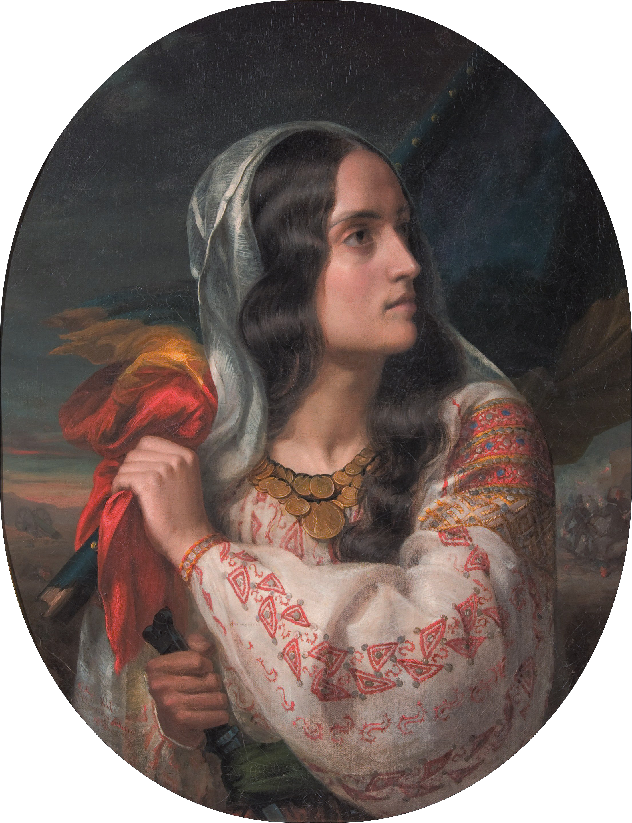 Maria Rosetti or The Romanian revolutionary oil on canvas 78,5 x 63,5 cm 1848 - 1851